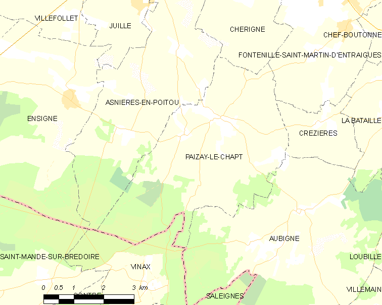 Map of French municipality Paizay-le-Chapt